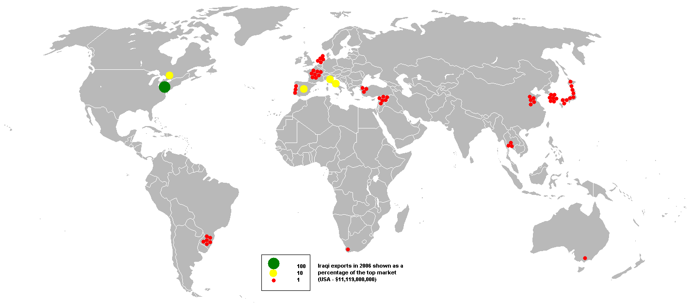 This bubble map shows the global distribution of Iraqi exports in 2006 as a percentage of the top market (USA - $11,119,000,000). This map is consistent with incomplete set of data too as long as the top producer is known. It resolves the accessibility issues faced by colour-coded maps that may not be properly rendered in old computer screens. Data was extracted on 18th September 2007 from Based on :Image:BlankMap-World.png